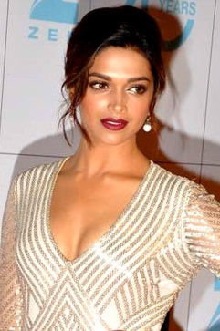 Deepika Padukone at the Zee Cine Awards 2013